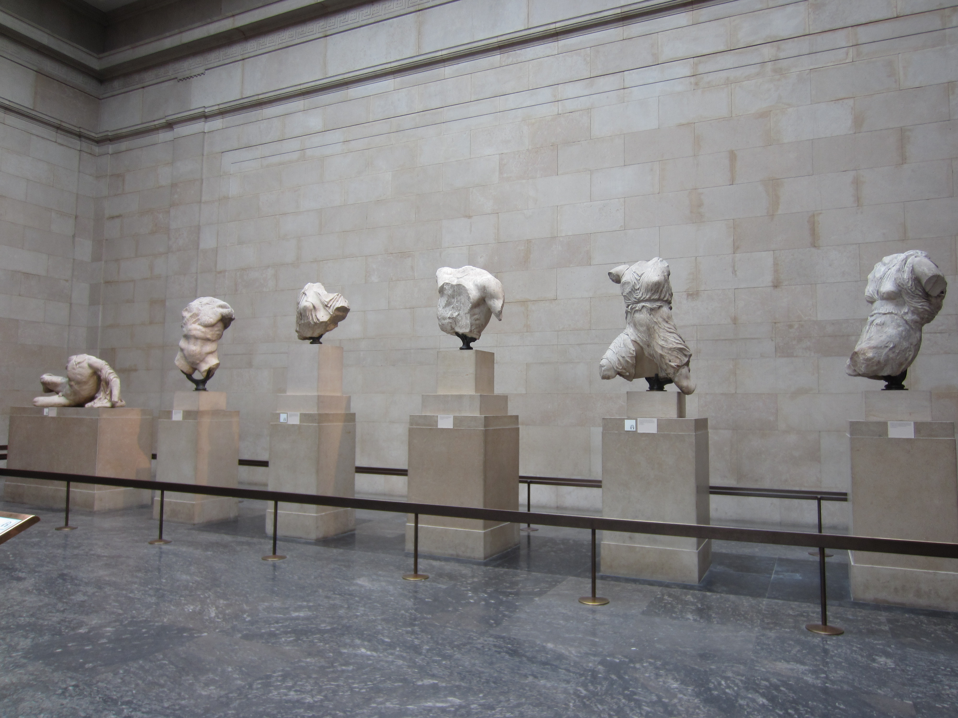 British Museum, London (2014)